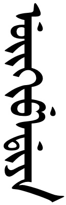 How to spell "Wikipedia" in Manchu